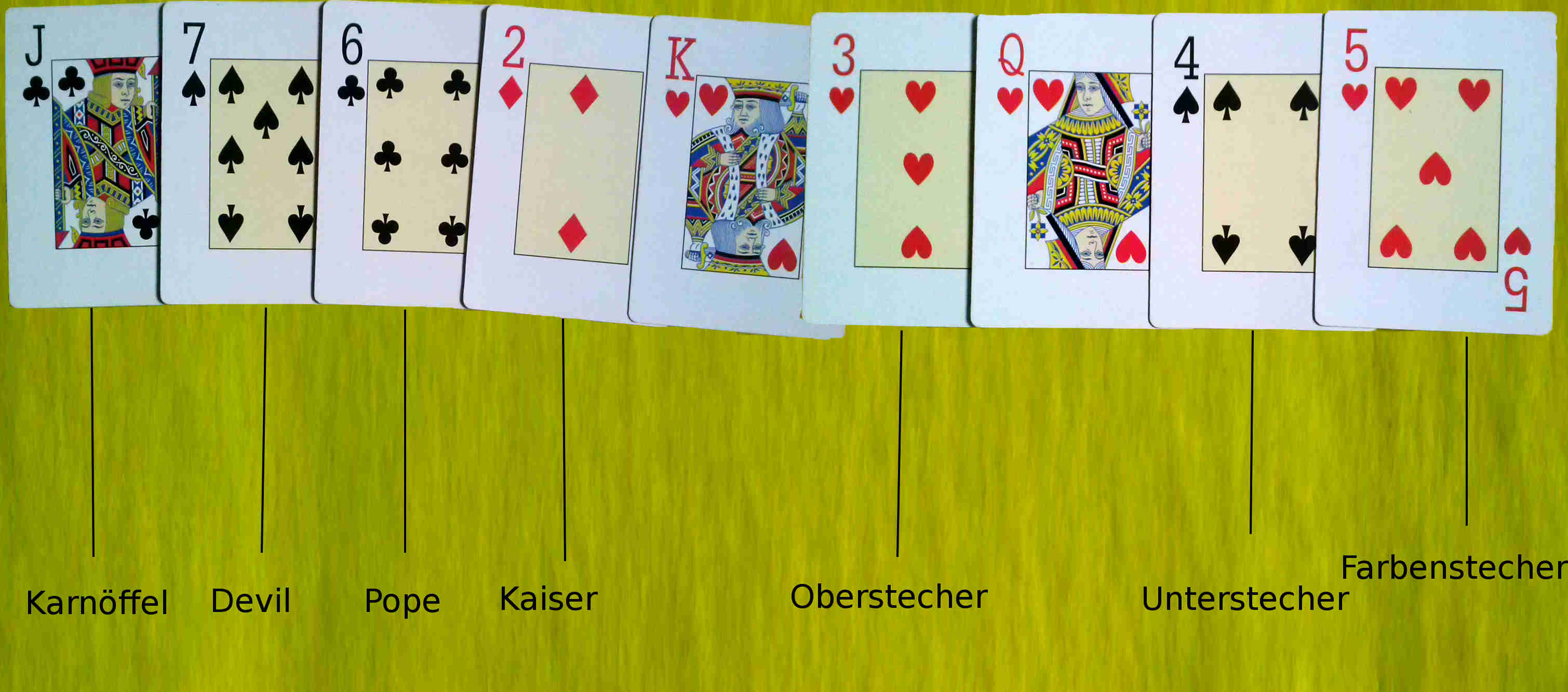 Cards order in card game Karnöffel.